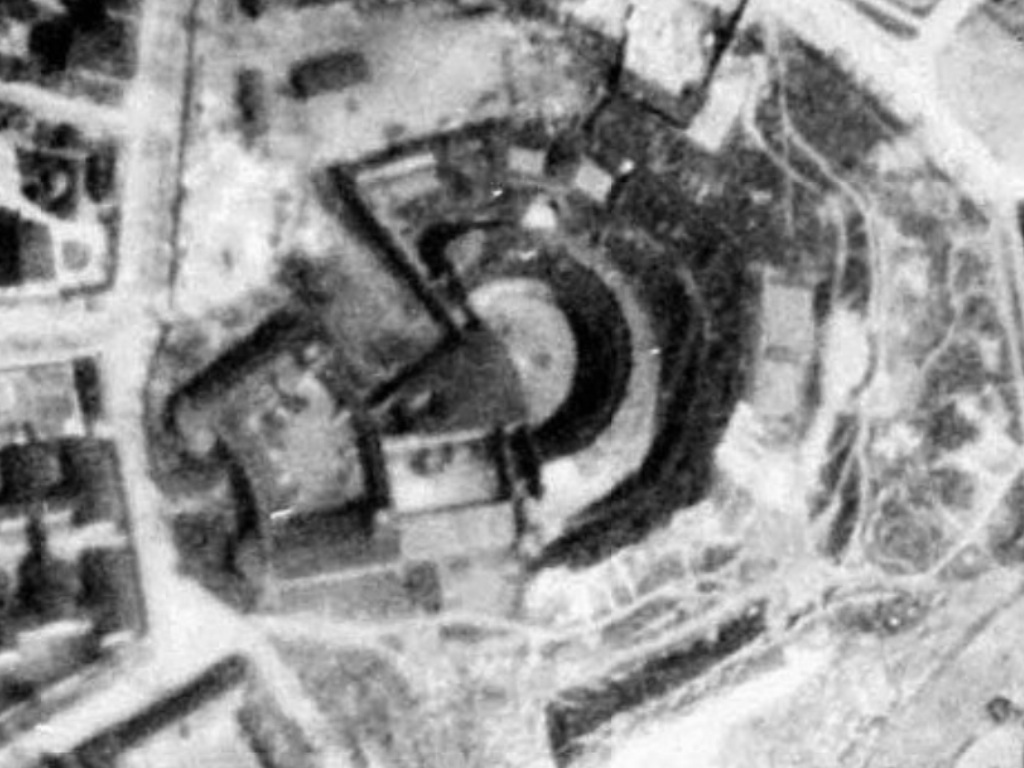 Taken by the U.S. Air Force Recoinnassance